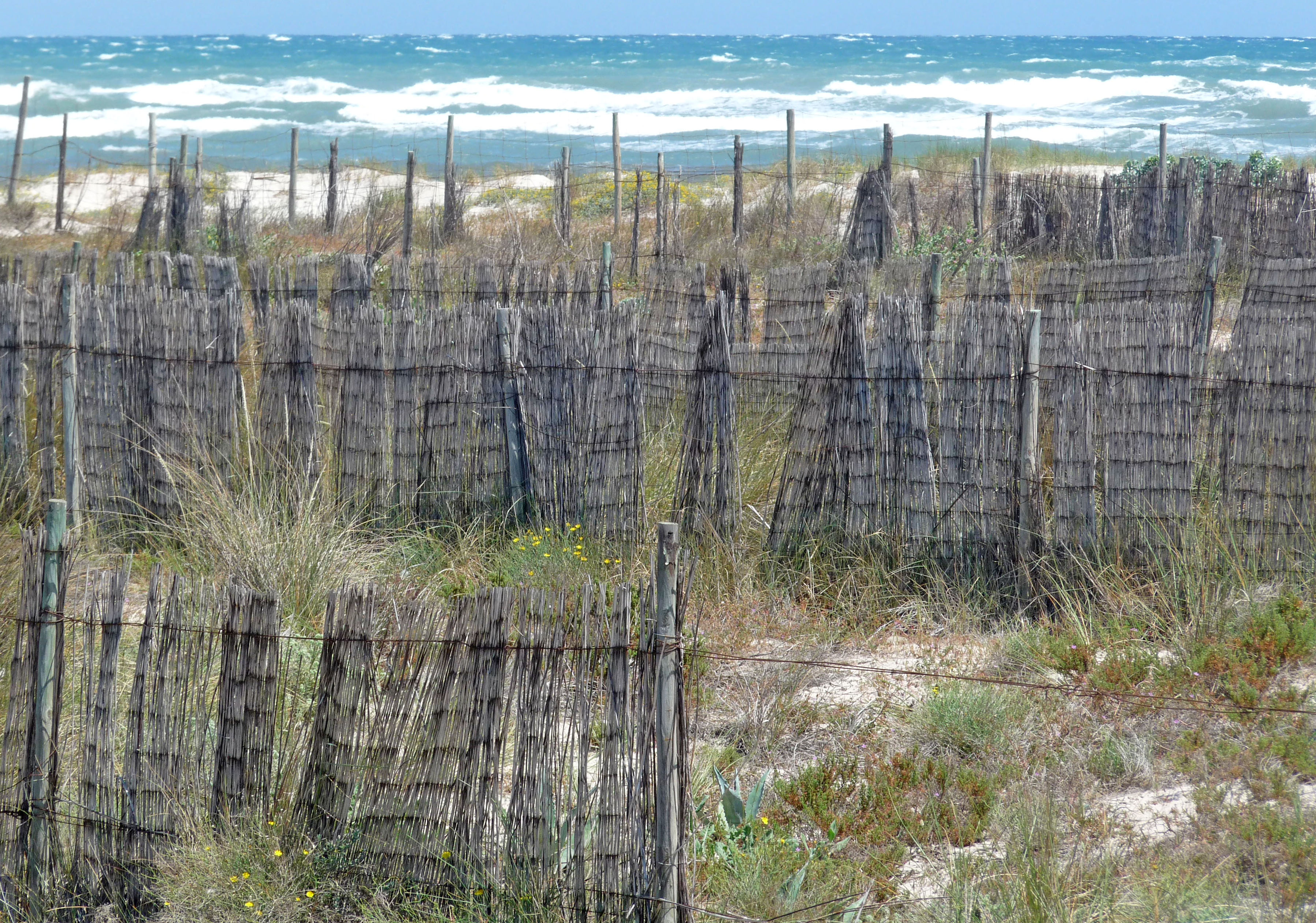 Costa Calida dunes